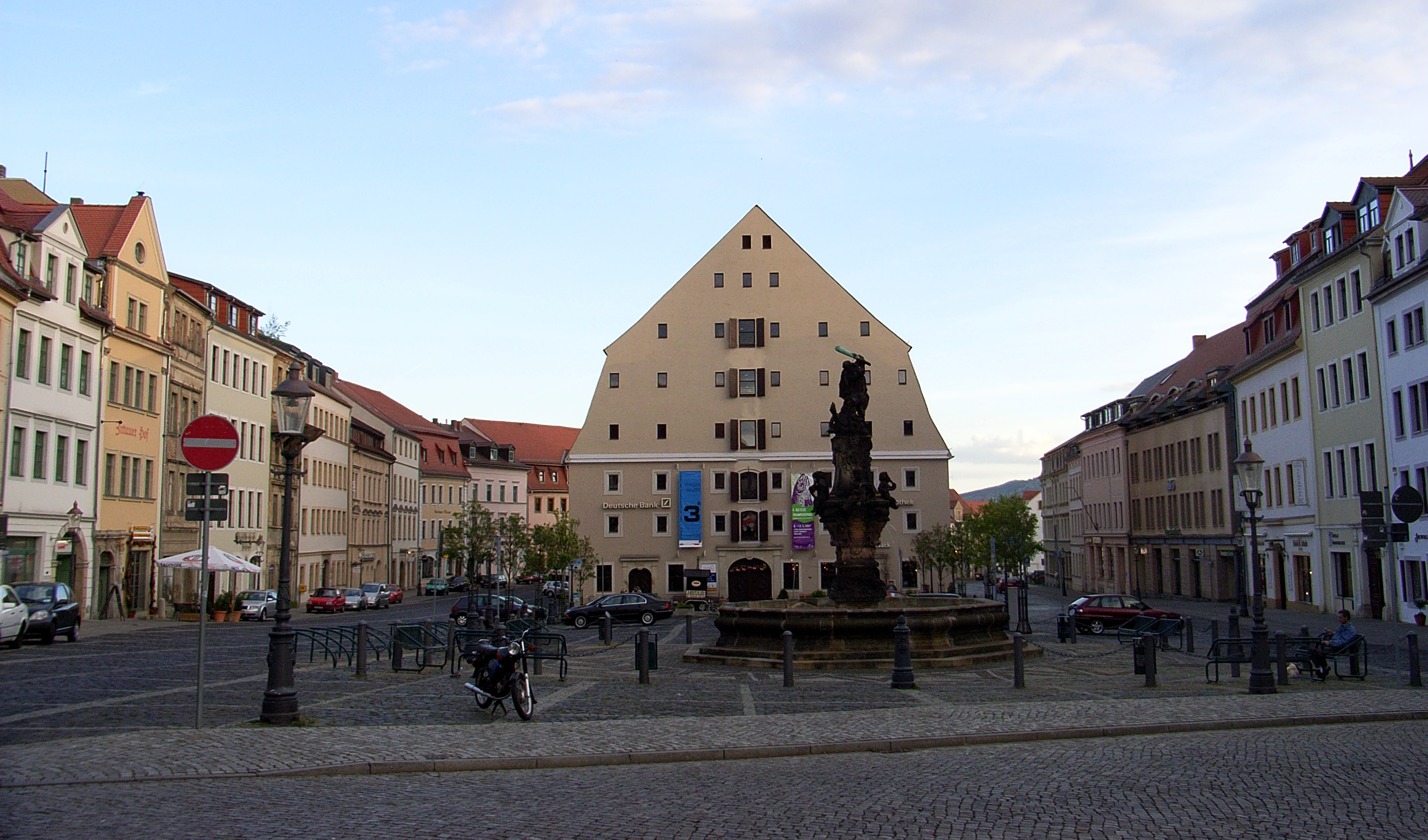 Neustadt square in Zittau (Saxony) with the Salzhaus ("salt house") and the Hercules Fountain